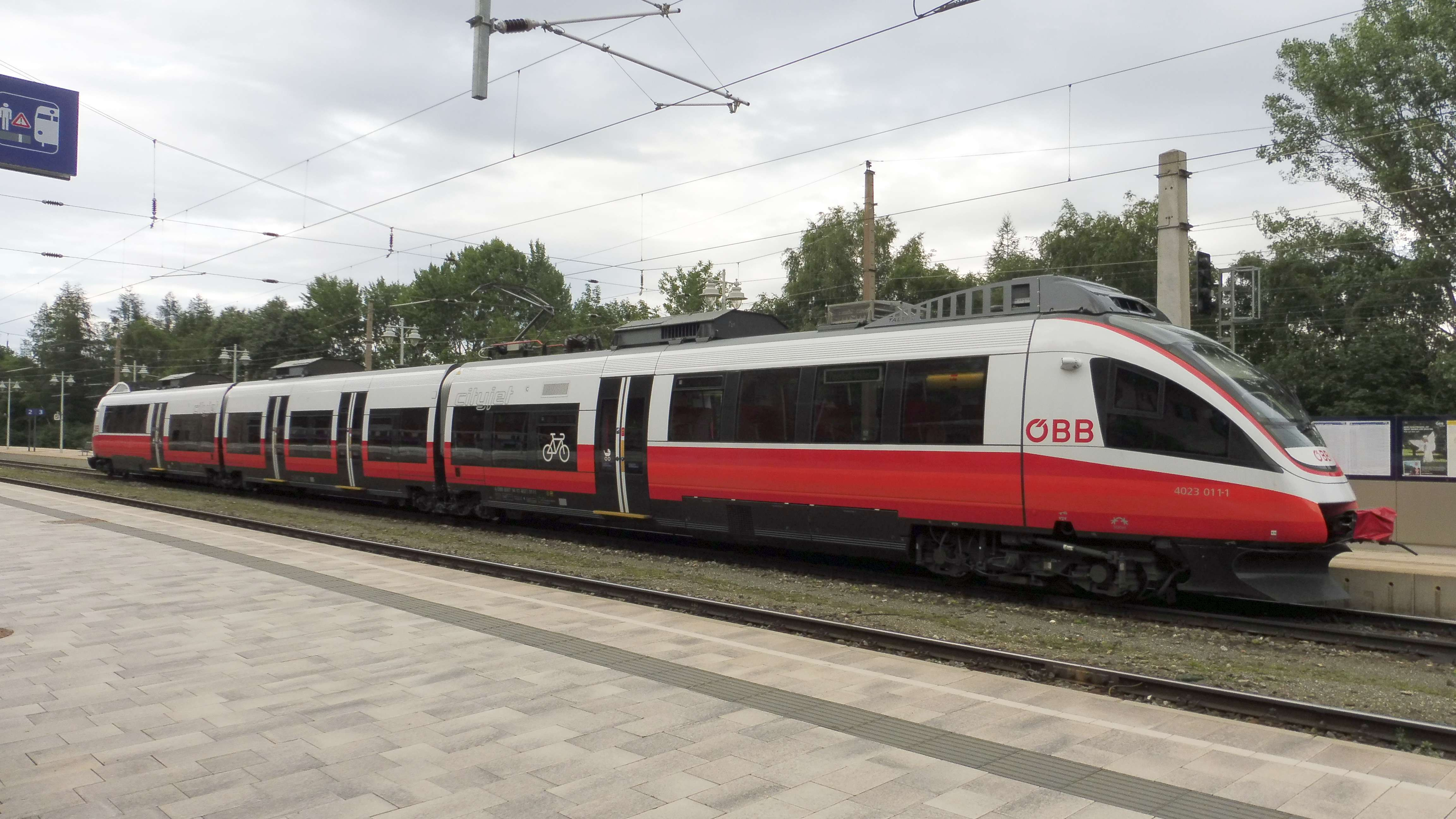 A-ÖBB 94 81 4023 011-1, recently renewed in cityjet design, stopping at Semmering station